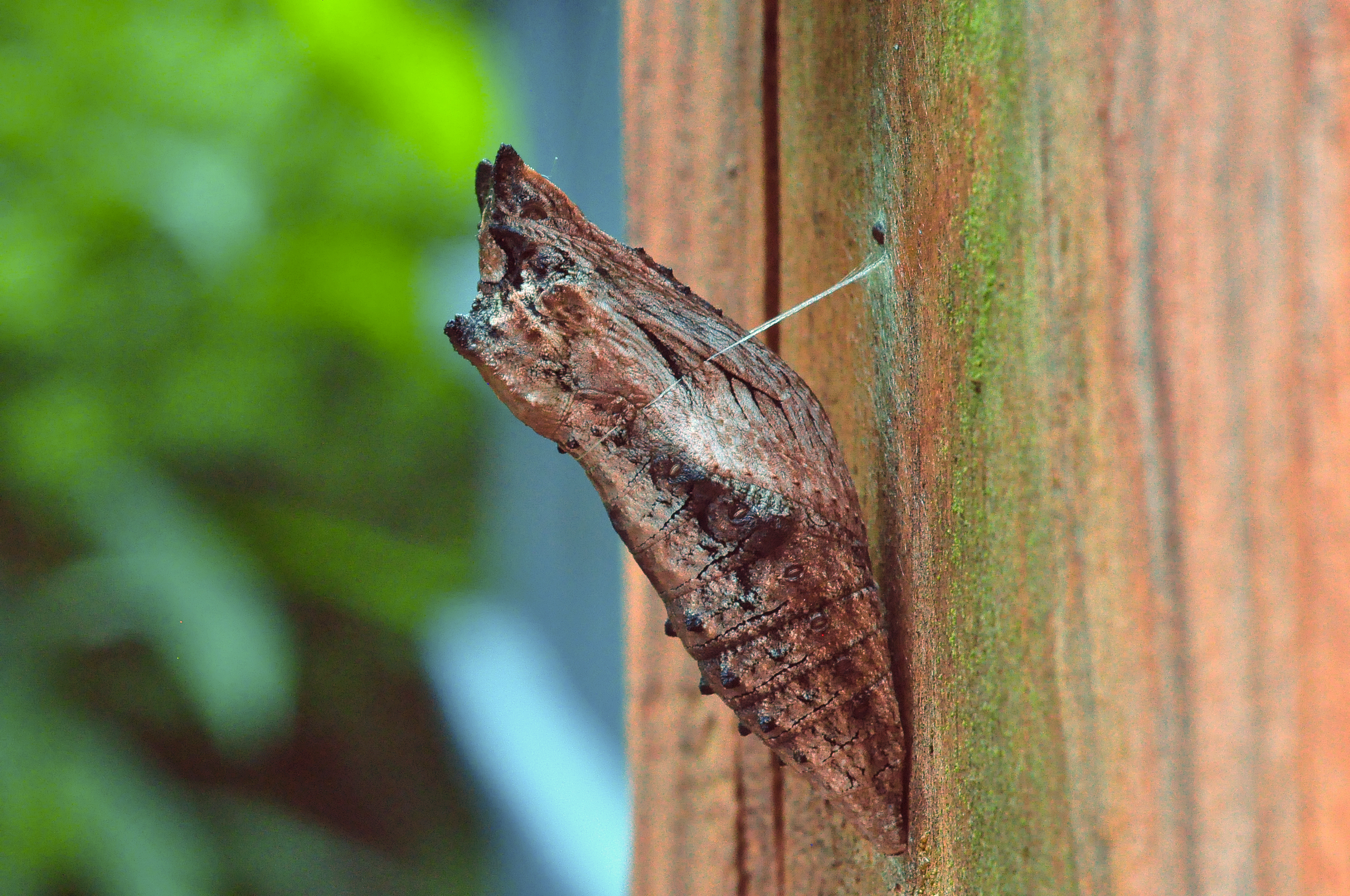 The chrysalis of the black swallowtail butterfly, Papilio polyxenes. Gray/brown color morph. Image taken in Pittsburgh, Pennsylvania at Beechwood Farms Nature Reserve.